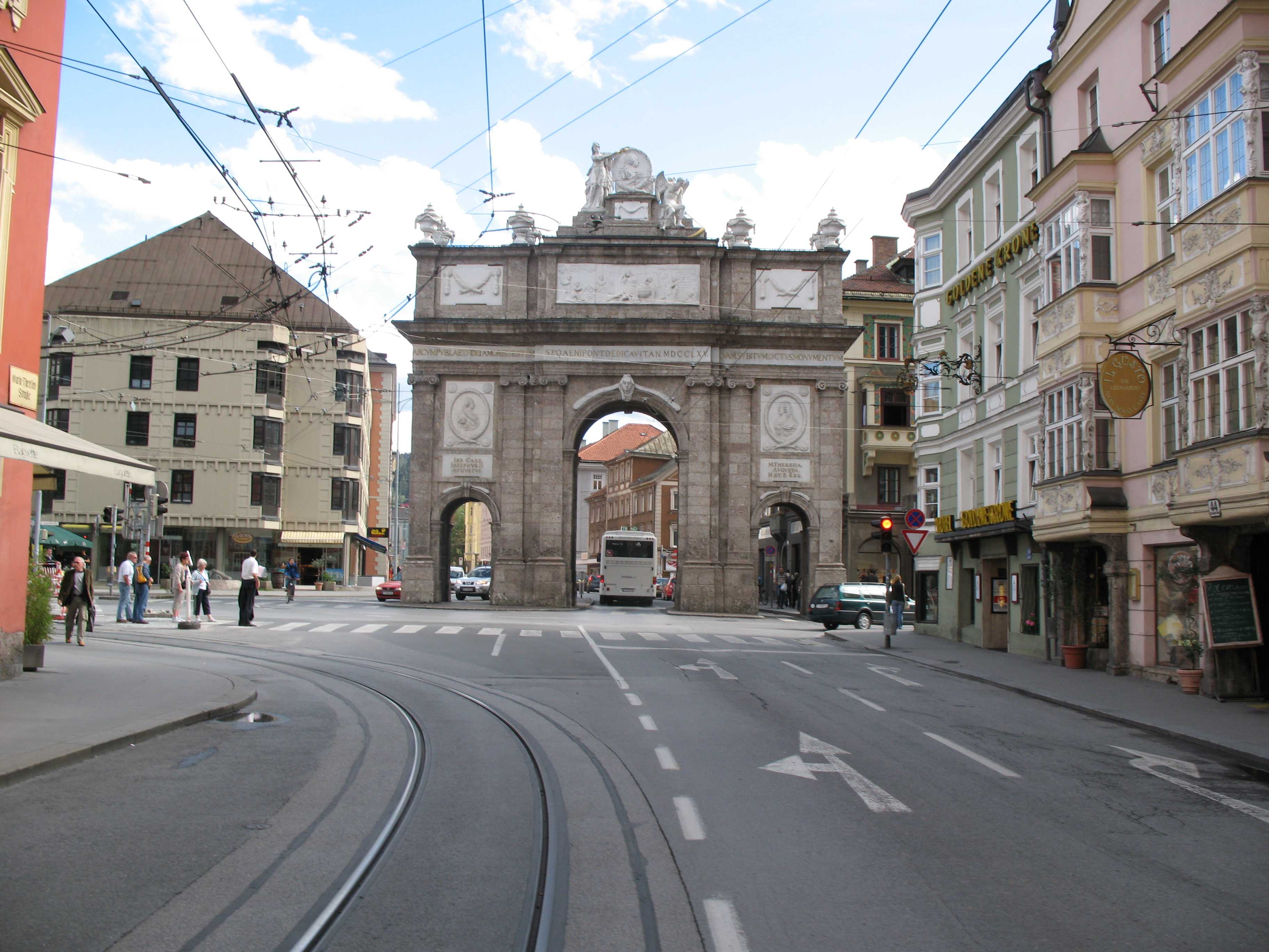 Arc of Triumph, Innsbruck, Austria